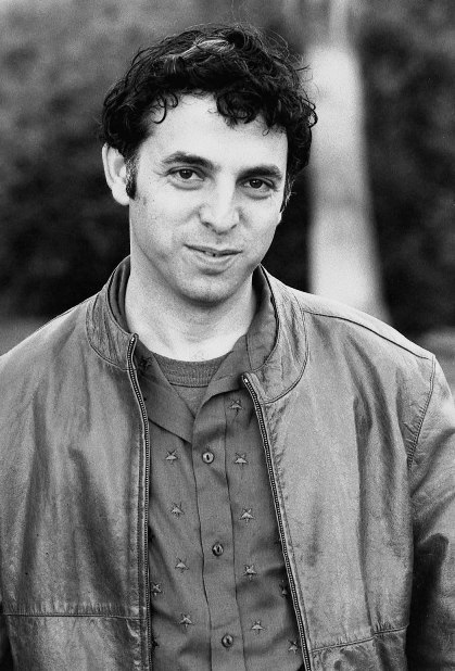 Photographic portrait of Israeli author, Etgar Keret